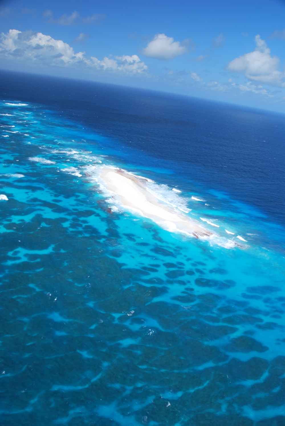 oblique aerial photo of Motu One, northern Marquesas Islands, from NNE